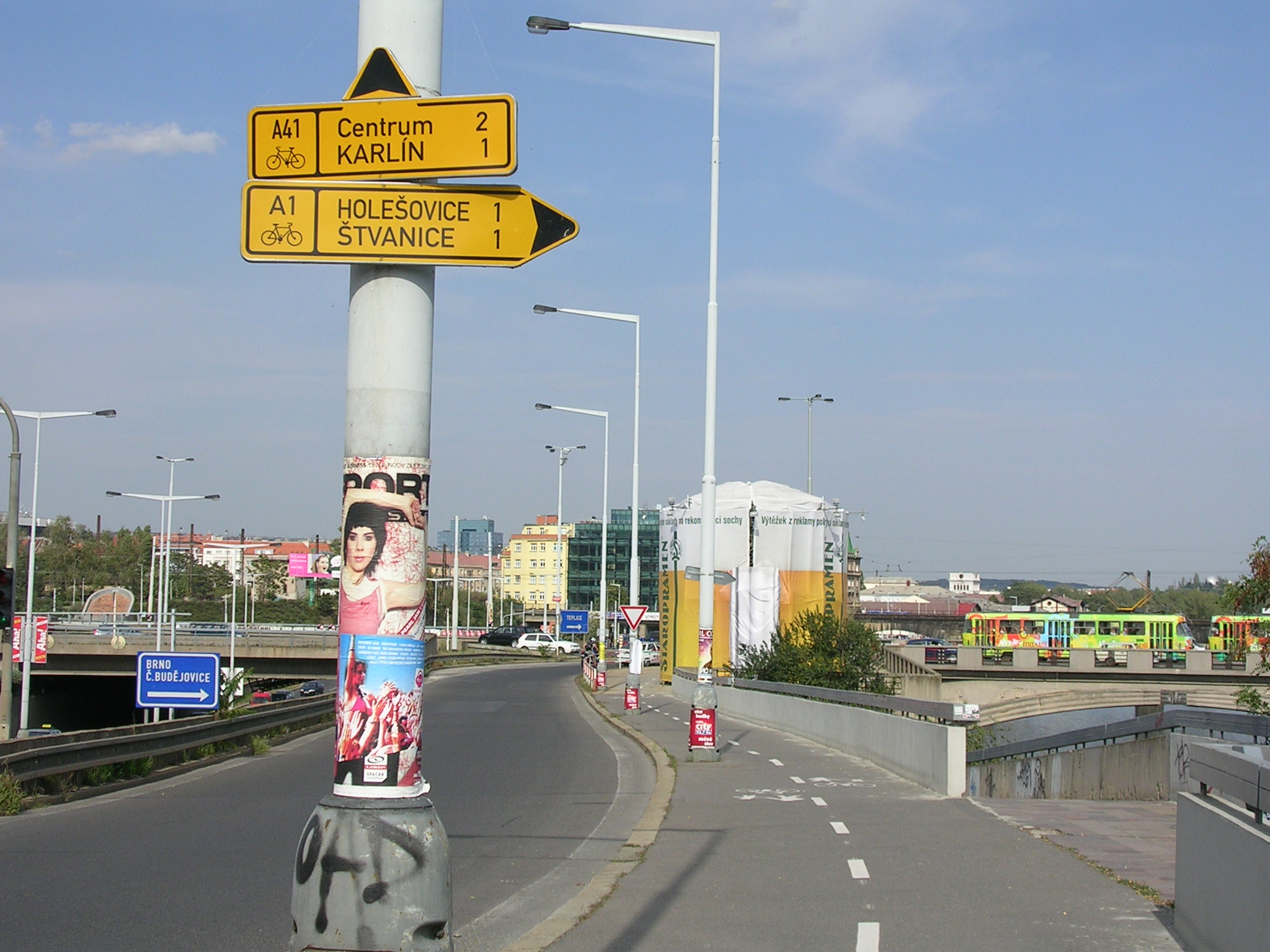 Prague, Holešovice. Cycling route and bikeway